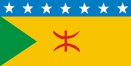 Flag of the Tumoujgha republic, self proclaimed by a faction in 2007 during the tuareg revolt